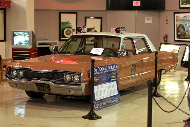 1966 Dodge Polera in the Salmon/Dusty Rose paint scheme of the San Diego Sheriff's Dept. This color was used from 1966 to 1970. (Photo taken by me on 3-9-07 at the San Diego Automotive Museum)